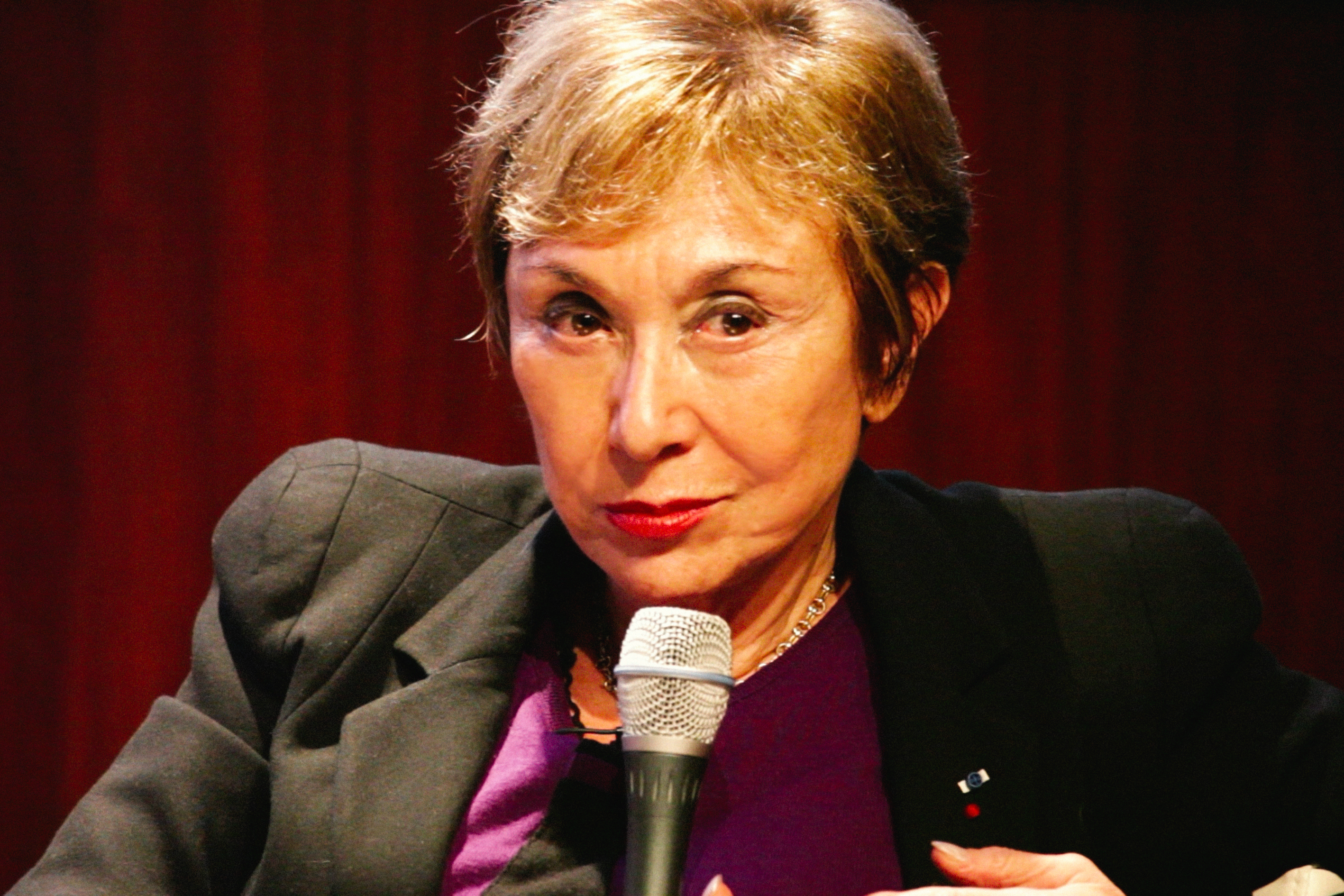 Julia Kristeva in The National Library of France, 2016 Julia Kristeva à la Bibliothèque Nationale de France, 2016